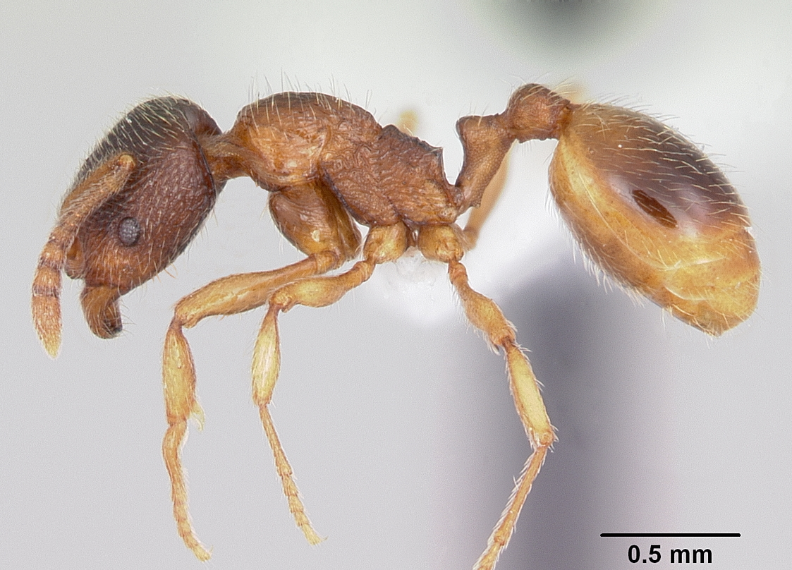 Profile view of ant Stenamma chiricahua specimen casent0000297.